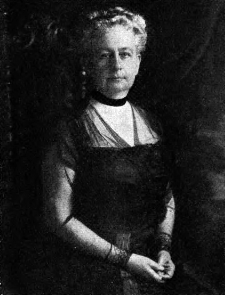 Louise DeKoven Bowen (February 26, 1859 - November 9, 1953) was an American philanthropist, community leader, and suffragist